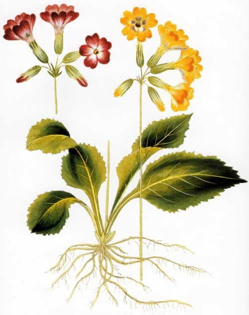 This hand-coloured engraving of Primula elatior, the oxlip, was included in Volume 9 of "Icones Plantarum Medico-Oeconomico-Technologicarum", which was published in Vienna in 1819. Drawings and engravings in "Icones Plantarum" were worked on by cartographic engraver Ignaz Alberti, who carried on with the publication after Vietz's death.